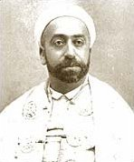 Mohamed Tahar Ben Achour